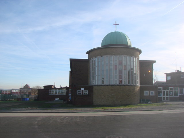 St Michael's Catholic and Church of England High School.